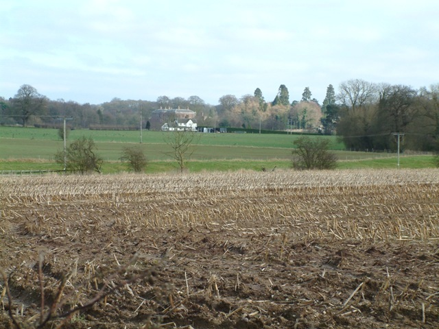 Oakley Hall Looking across a maize stubble field towards Oakley Hall.